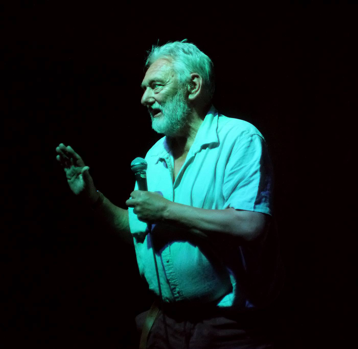 Malcolm LeGrice at the Museum of Contemporary Art Detroit 2015